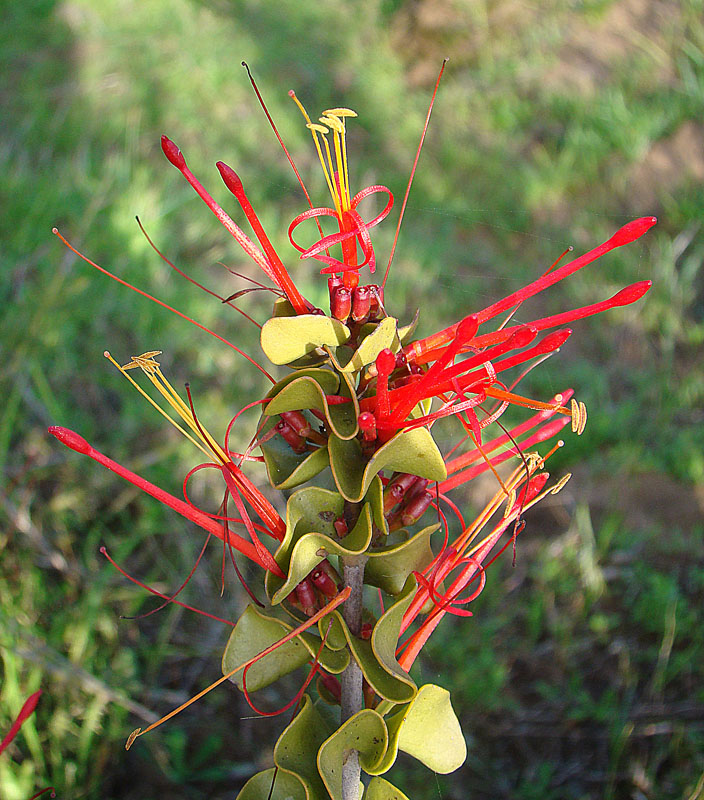 A mainly Chilean species of Quintral. In context at